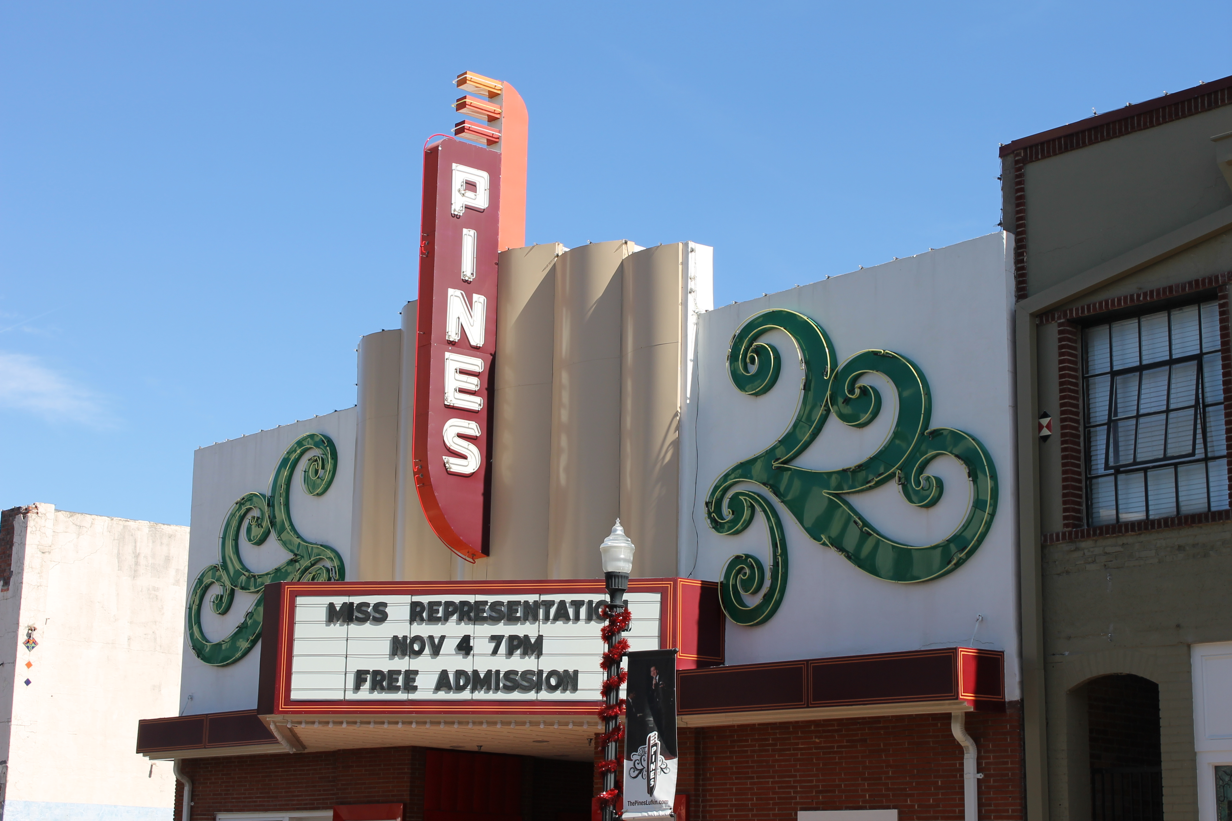 Refurbished Pines Theater, a multi-use facility in downtown Lufkin, TX, seats 459.